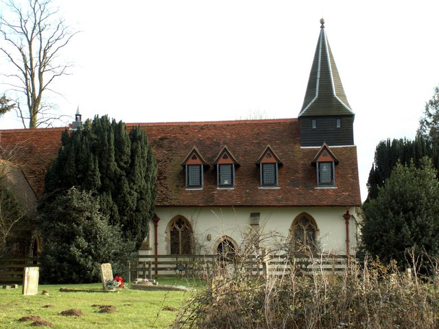 St. Mary's church, Pattiswick, Essex. Like many other redundant churches around the country, this 12th century church has been converted into a private residence. The conversion has been quite sympathetically done and, although it seems a shame that such action has been carried out, it is better than demolition.